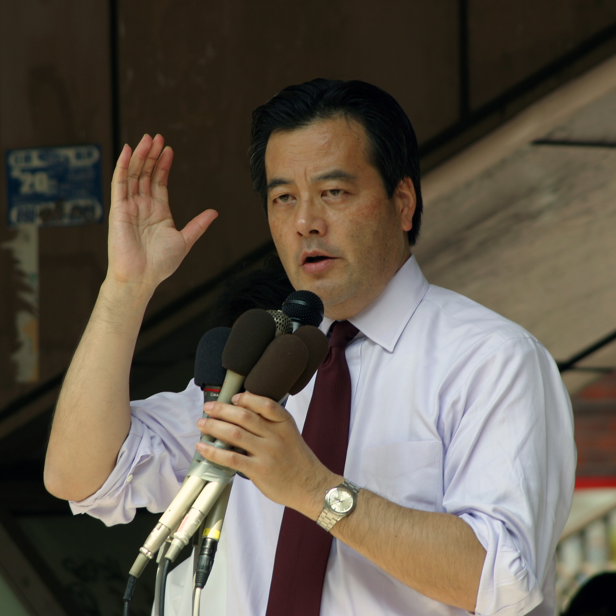 Katsuya Okada - Public speaking - Takamiya Station, Minami-ku, Fukuoka, Fukuoka, Japan